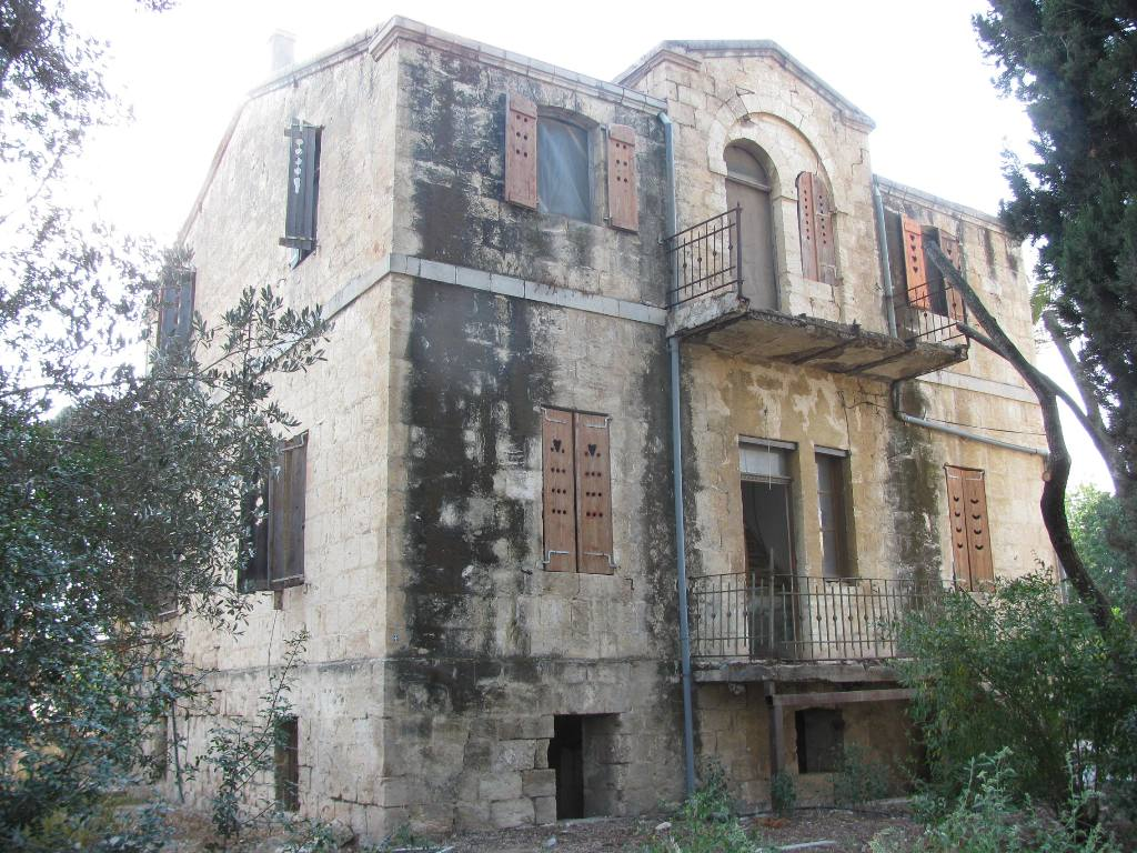 Alonei Aba-Waldheim, Architecture of Israel